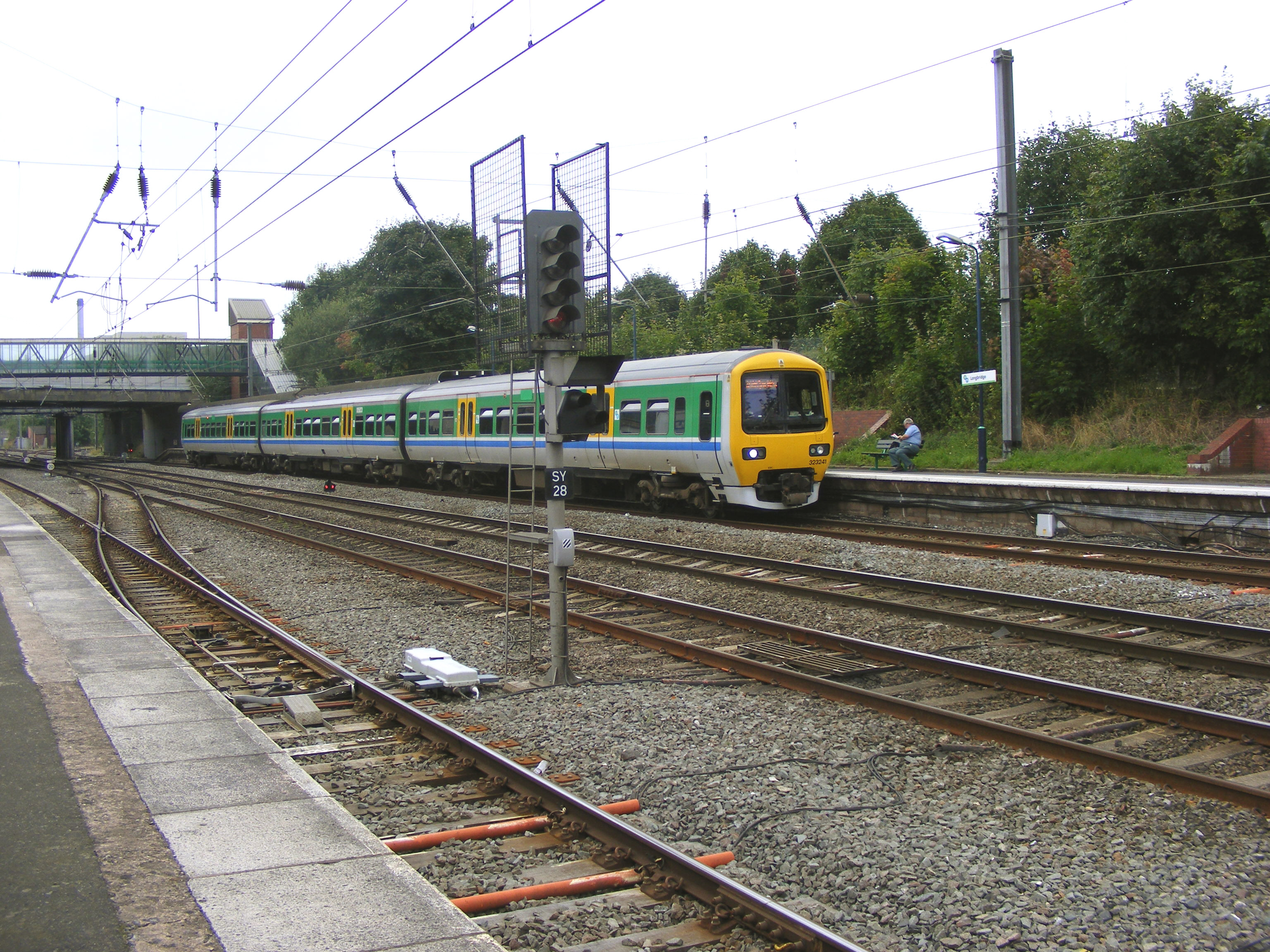 Class 323 number 323241 in the platform at Longbridge railway station